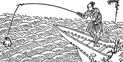 "Hamaguri no sōshi" (蛤の草子, Clam_Story) from the Otogizōshi (御伽草子)